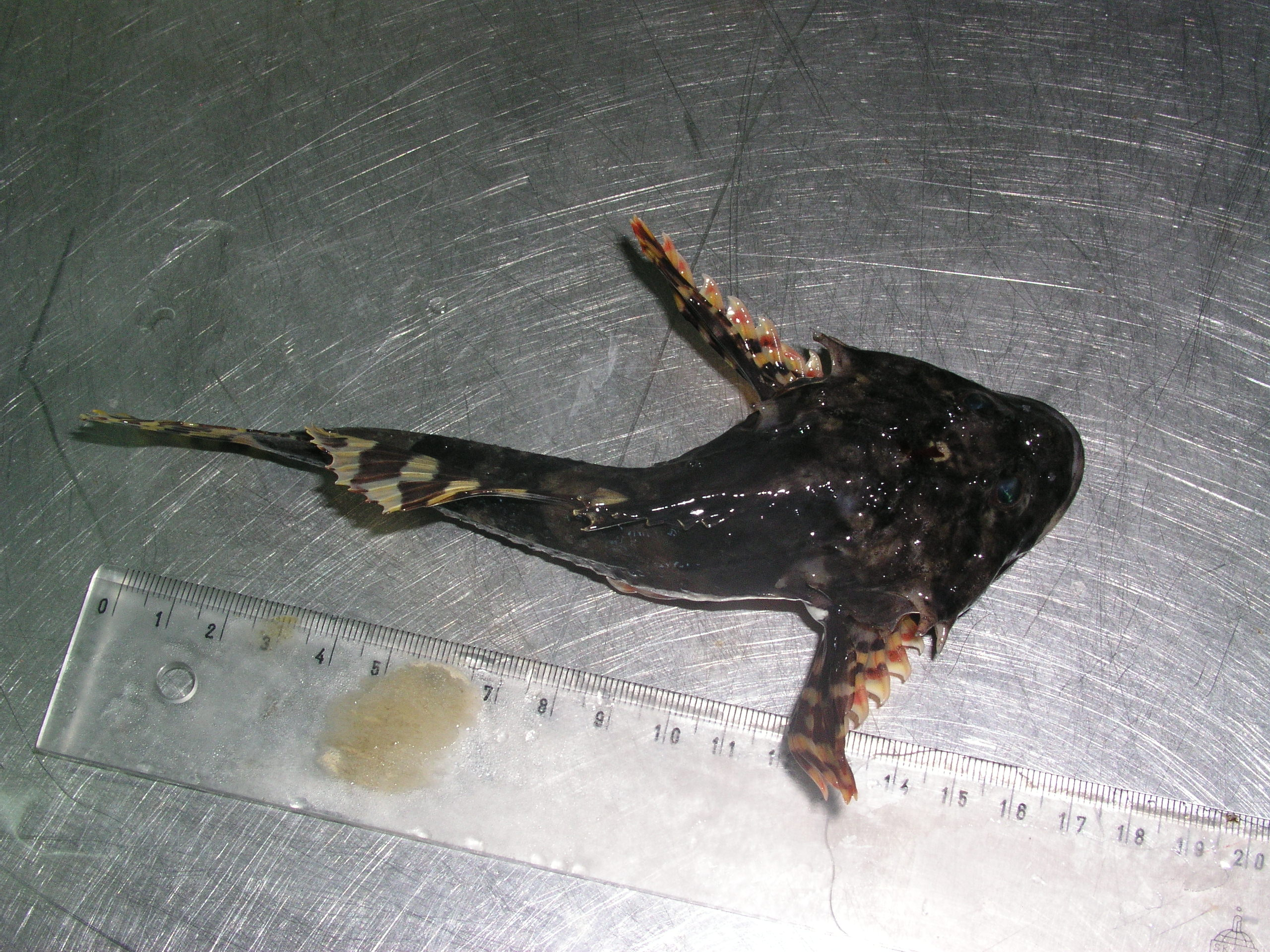 Shorthorn sculpin (Myoxocephalus scorpius) from the Gulf of Gdansk near Hel, Poland